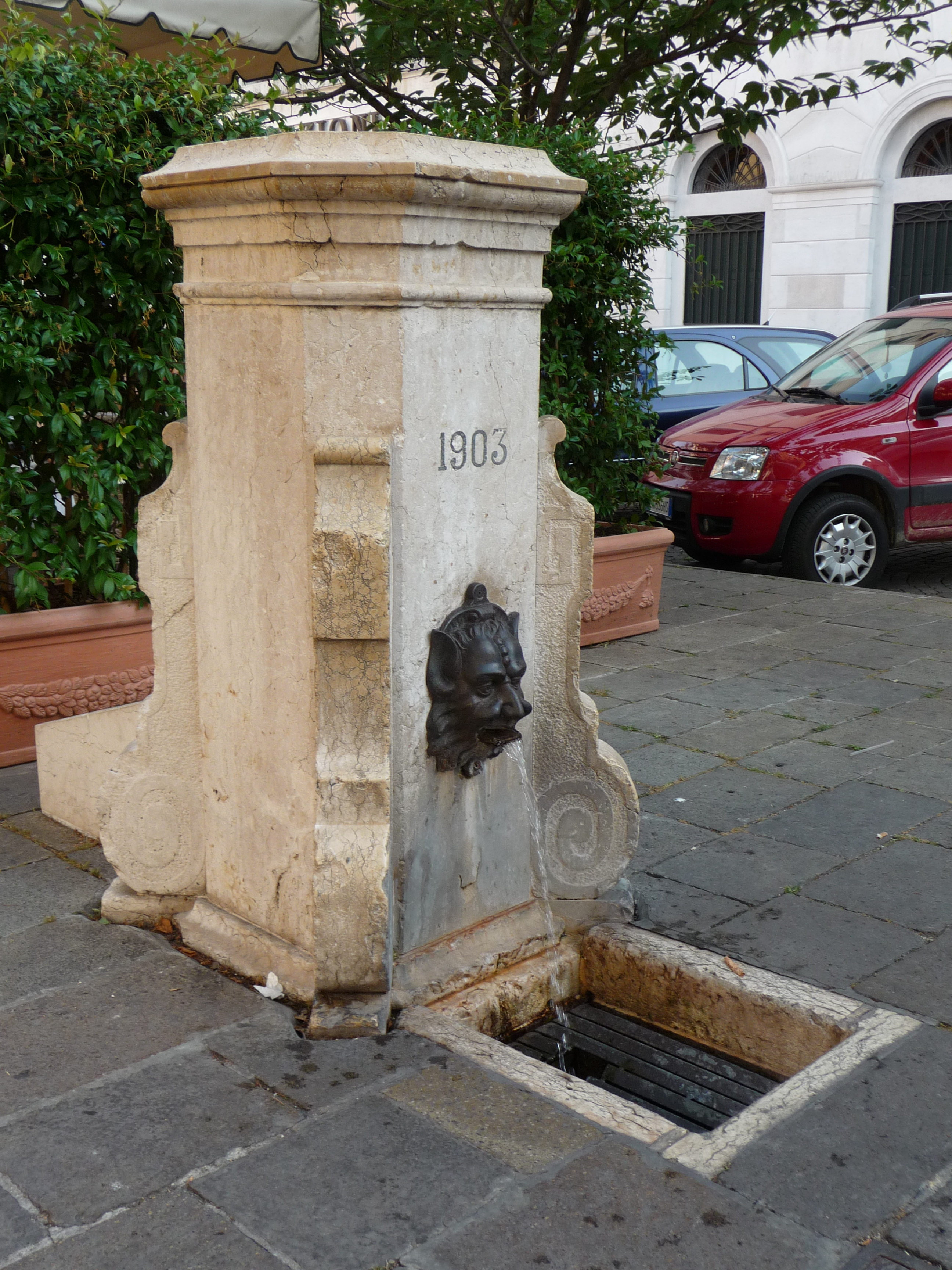 fountain in Piazza Pola, Treviso (IT)